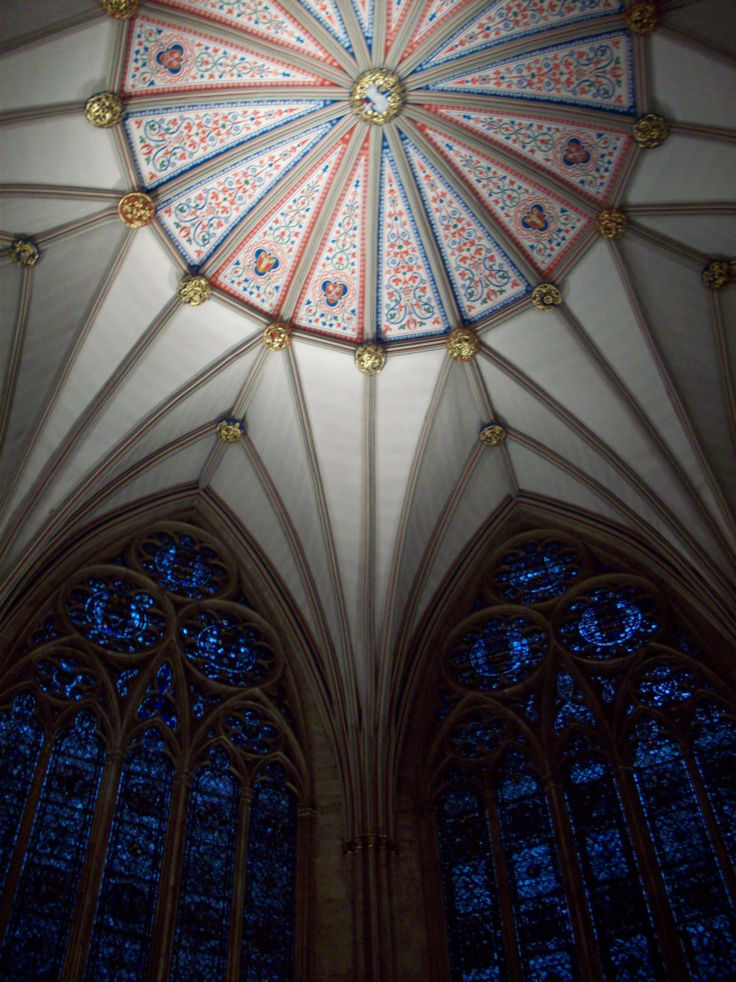 Chapter House, York Cathedral